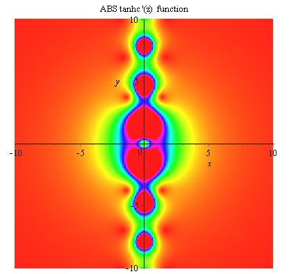 Tanhc'(z) abs plot